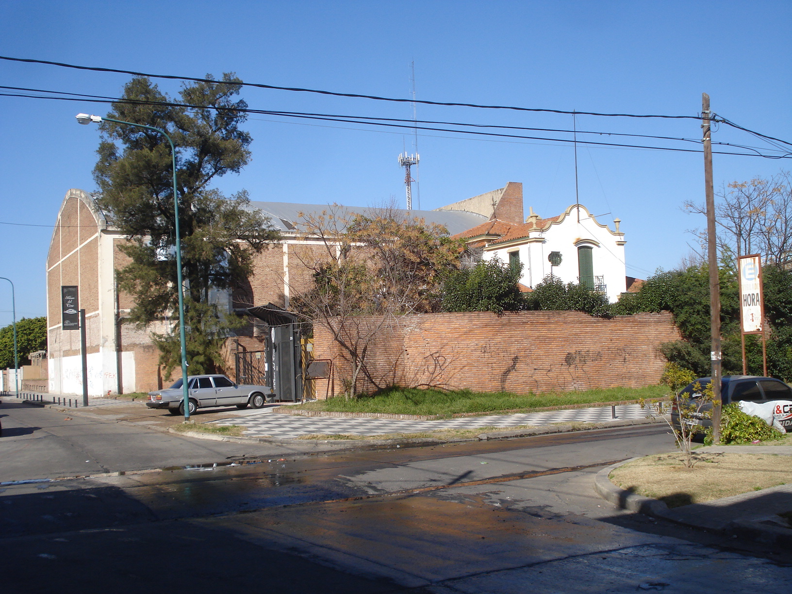 View of the Lumiton's Cinema Museum and the Cinematographic Studies in Munro, Vicente López, Buenos Aires province, Argentina.